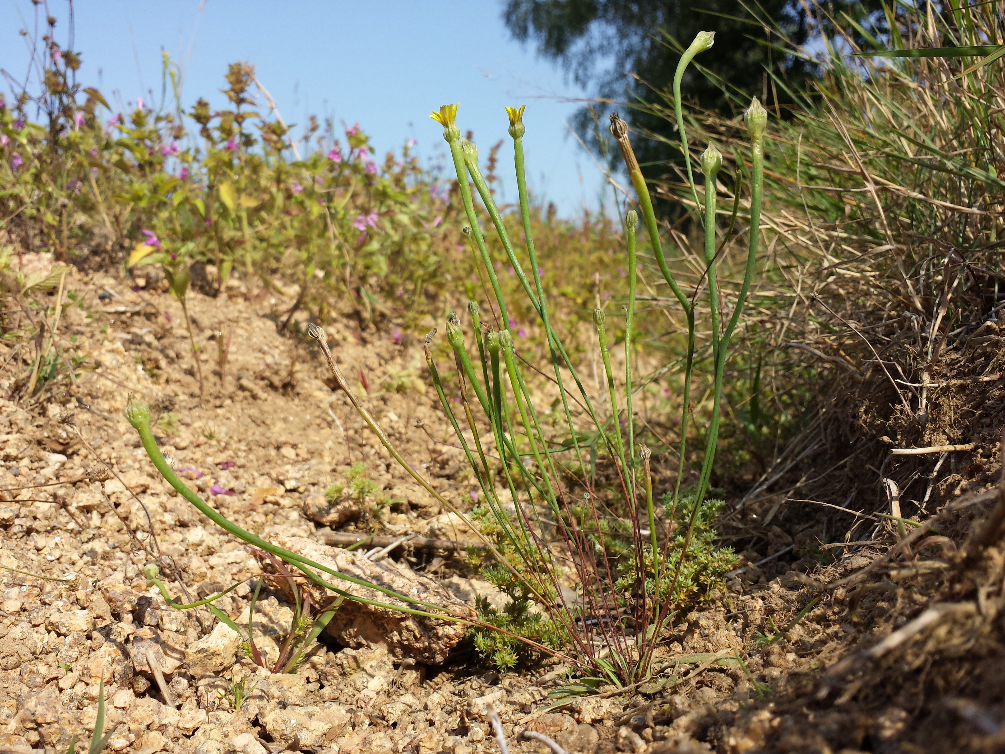 Habitus Taxonym: Arnoseris minima ss Fischer et al. EfÖLS 2008 ISBN 978-3-85474-187-9 Location: Blockheide near Gmünd, district Gmünd, Lower Austria - ca. 500 m a.s.l. Habitat: field